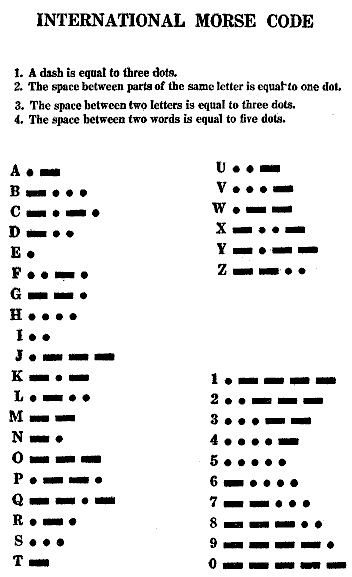 The current standard for word gap is 7 units, not the outdated 5 units as shown in the above chart.